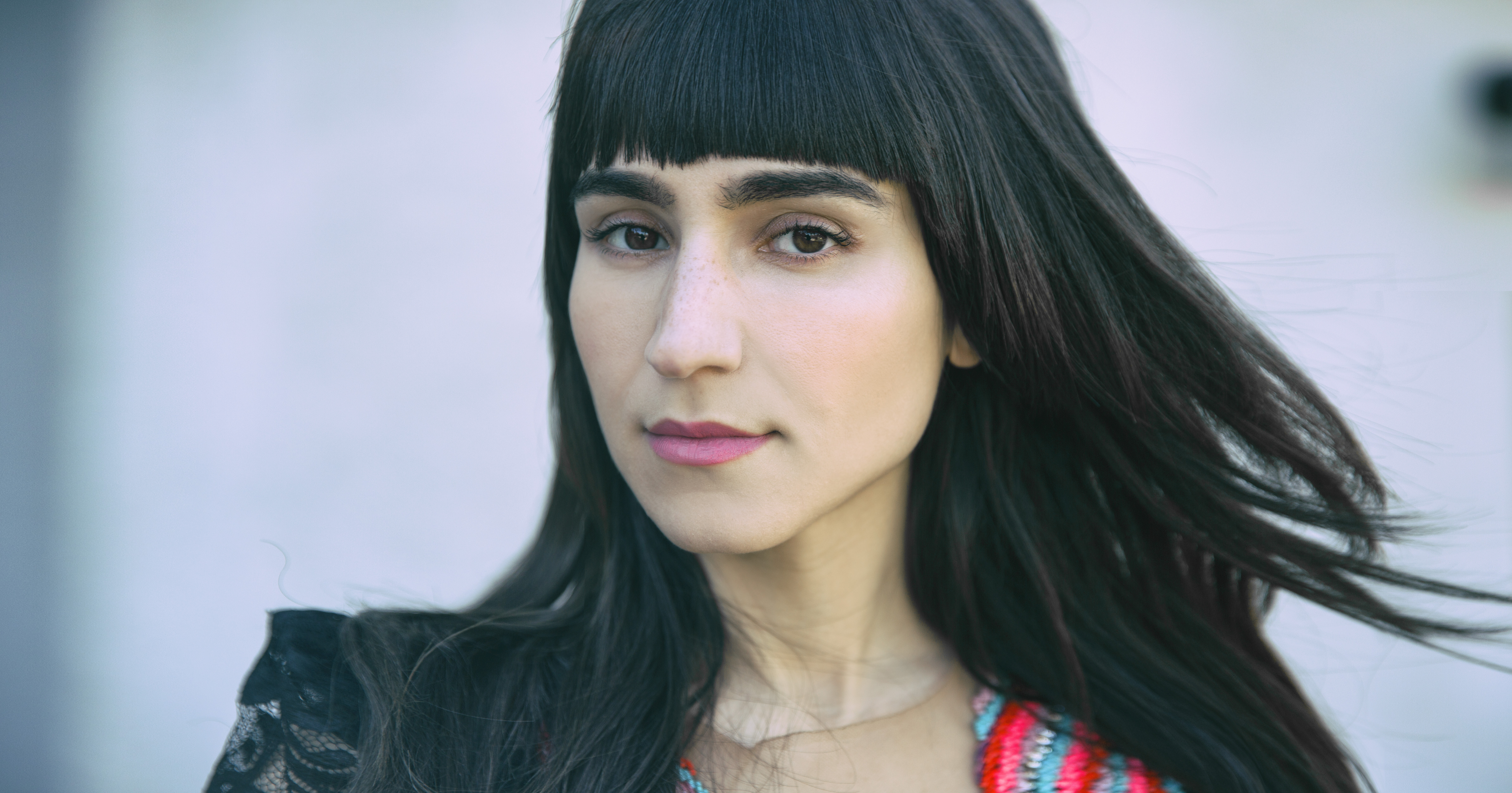 Promotional photo for Laleh's 2016 single "Bara få va mig själv".